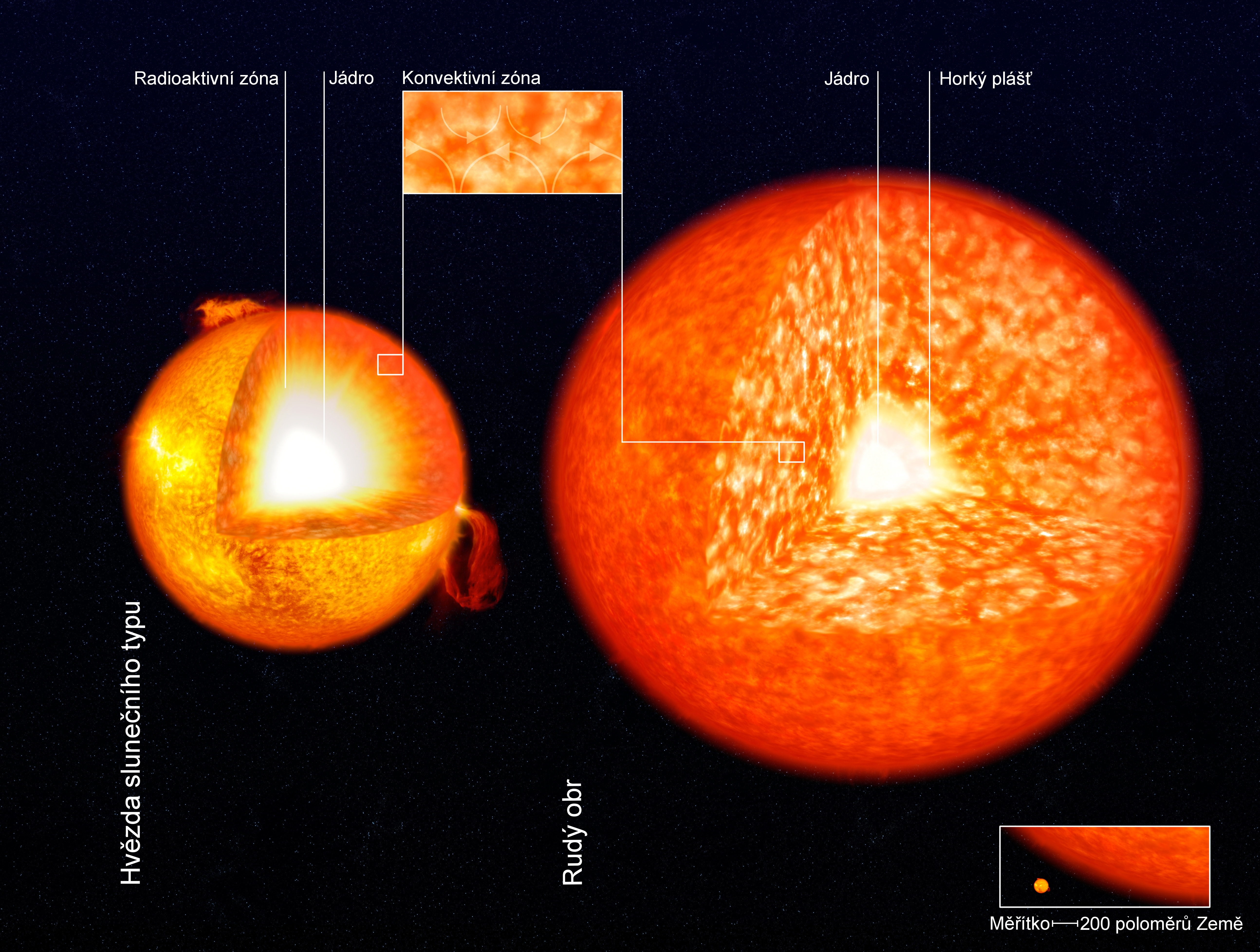 Artist's impression of the structure of a solar-like star and a red giant. The two images are not to scale - the scale is given in the lower right corner. It is common to divide the Sun's (and solar-like stars') interior into three distinct zones: The uppermost is the Convective Zone. It extends downwards from the bottom of the photosphere to a depth of about 15% of the radius of the Sun. Here the energy is mainly transported upwards by (convection) streams of gas. The Radiative Zone is below the convection zone and extends downwards to the core. Here energy is transported outwards by radiation and not by convection. From the top of this zone to the bottom, the density increases 100 times. The core occupies the central region and its diameter is about 15% of that of the entire star. Here the energy is produced by fusion processes through which hydrogen nuclei are fused together to produce helium nuclei. In the Sun, the temperature is around 14 million degrees. In red giants, the convection zone is much larger, encompassing more than 35 times more mass than in the Sun.